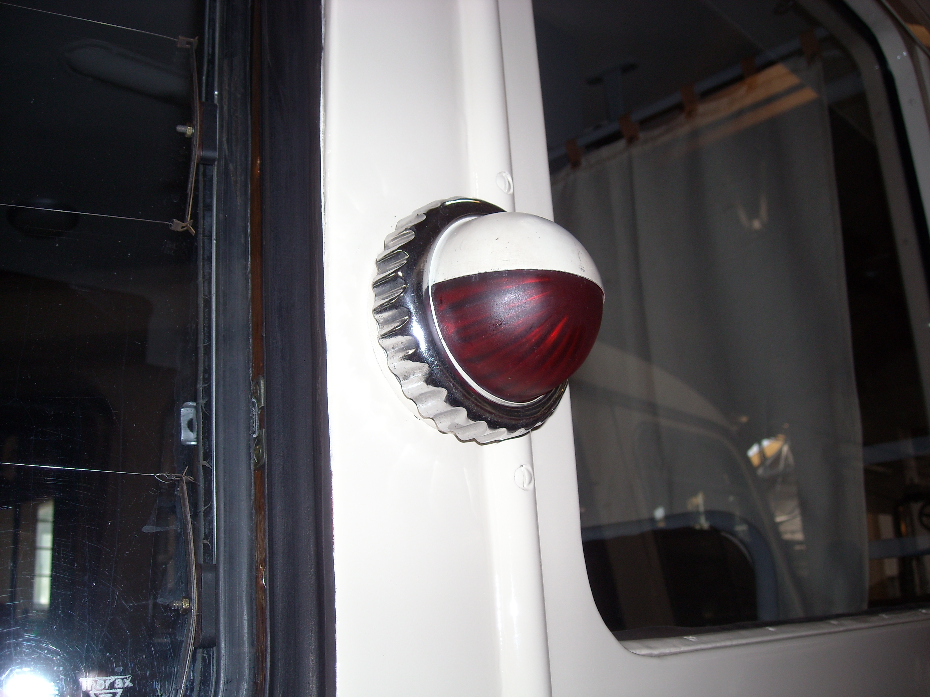 Turn signal lamp on T400